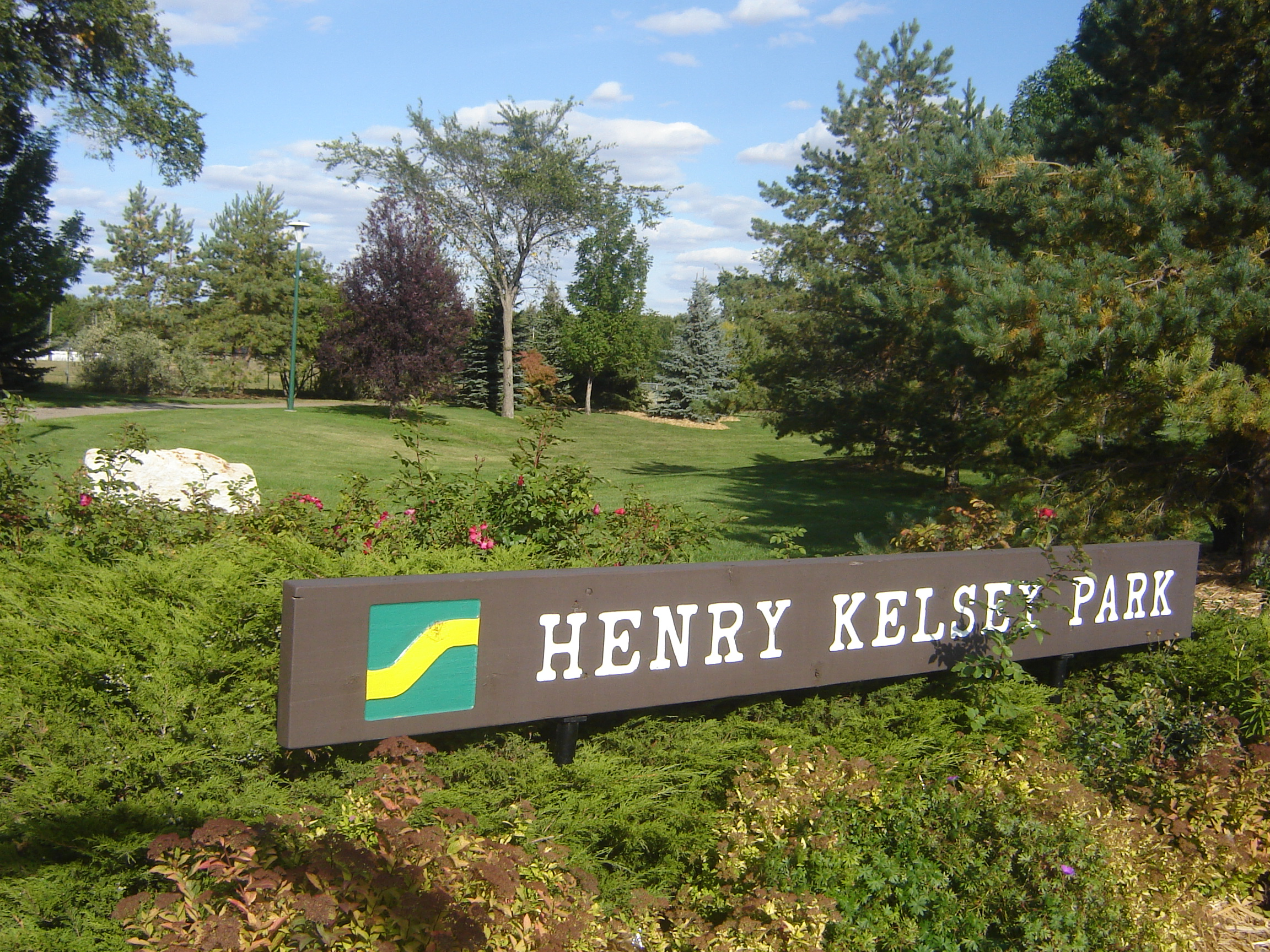 Henry Kelsey Park sign in the neighborhood of Hudson Bay Park, Saskatoon with buffalo rub stone in background